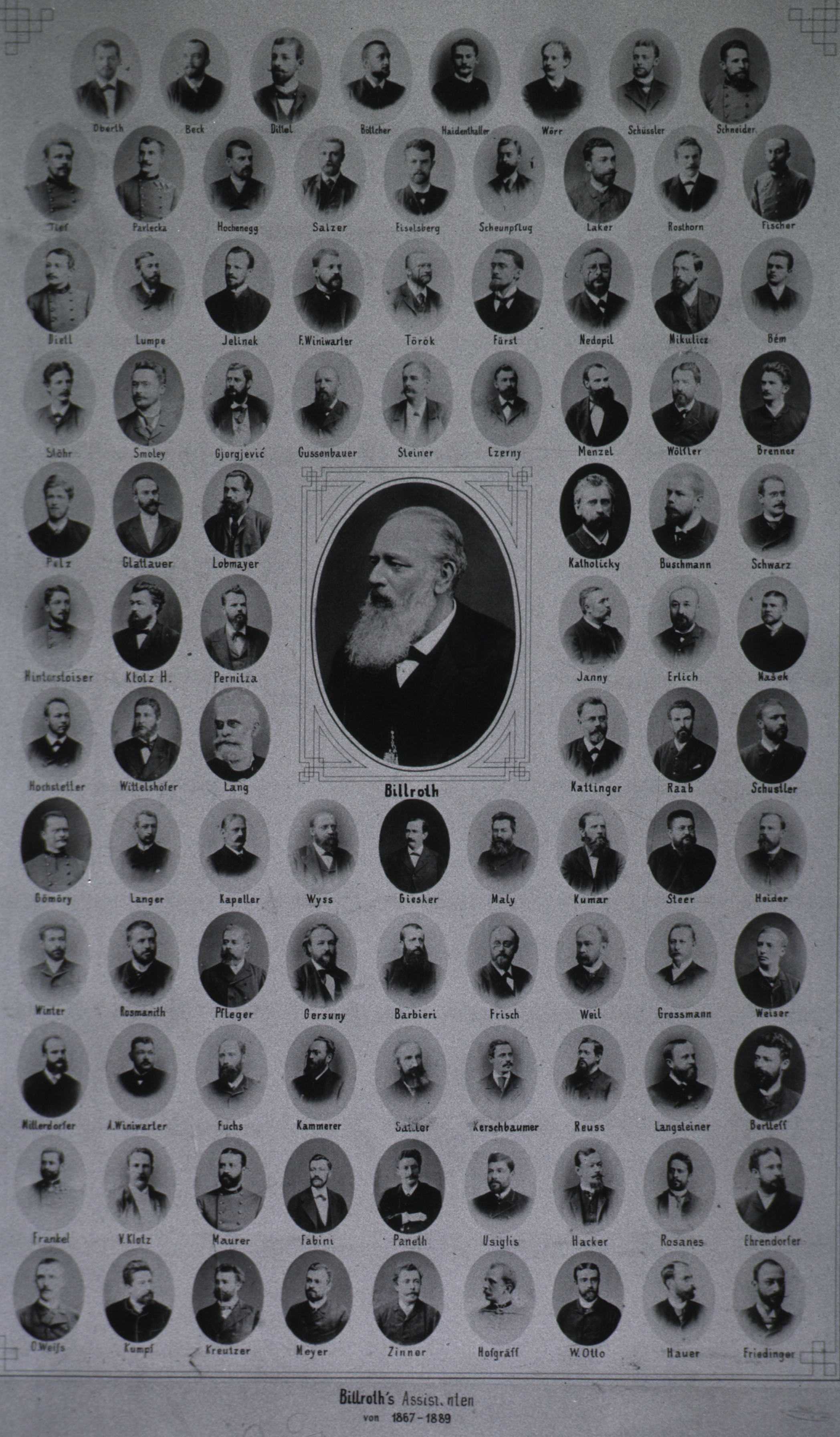 Billroth and his assistants